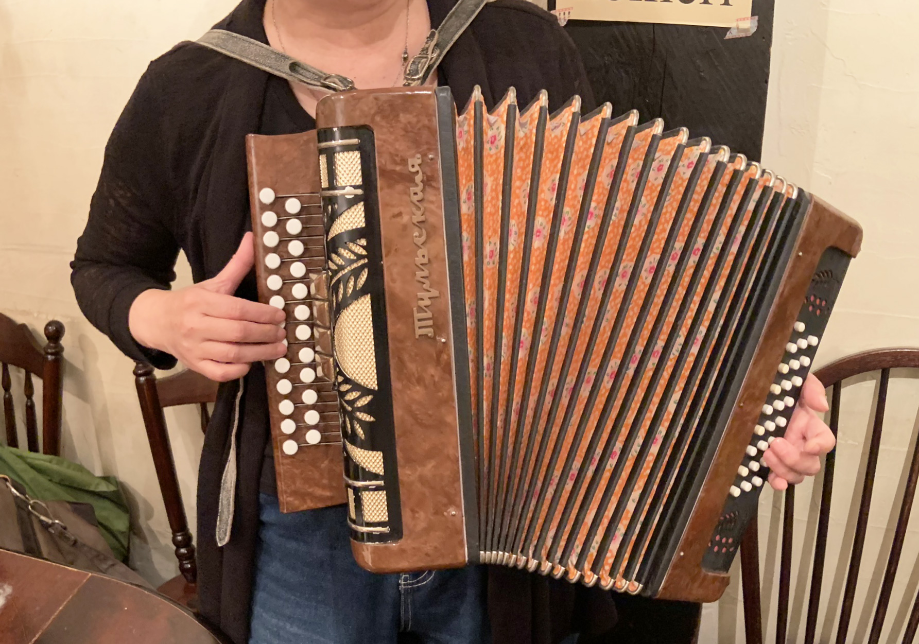 Megurin☆MURĀTA is playing her garmoni(Гармонь). This photo was taken at the monthly event entitled BANDONEON TOMO NO KAI (Meeting of Bandoneons' Friends) which is held at the cafe HOMERI, 2f., BOW Building, San'ei-cho 25-33, Shinjuku City, Tokyo.